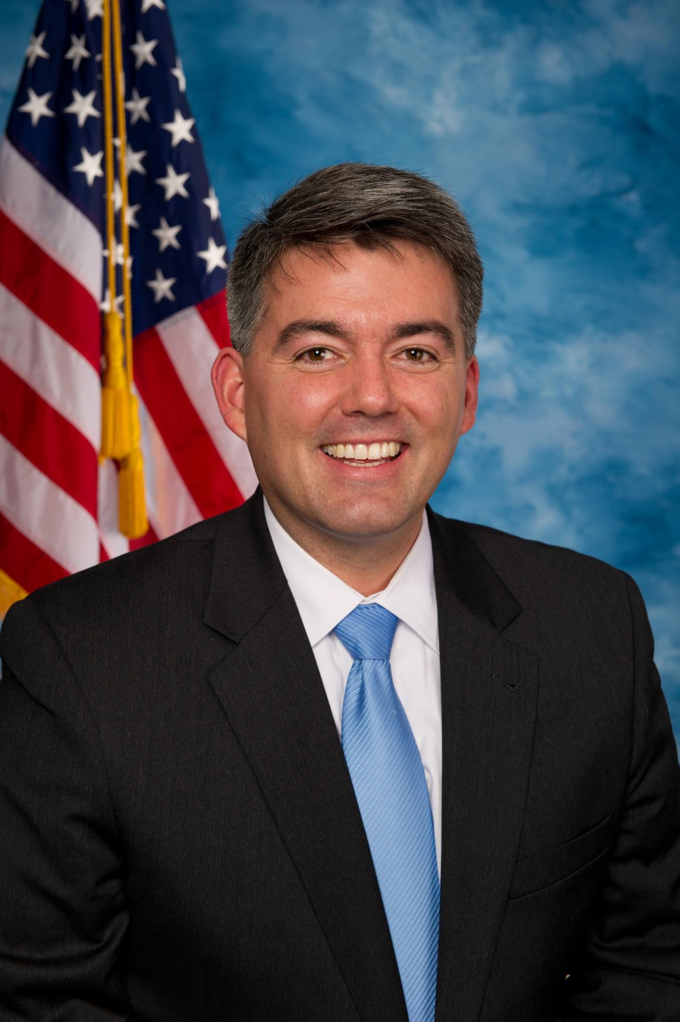 Congressman Cory Gardner